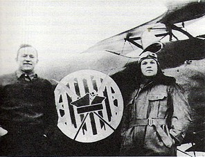 Squadron of US_Volunteers in Polish Air Force.Polish-Soviet War Mjr. Merion C. Cooper & Cpt. Cedric Fauntleroy